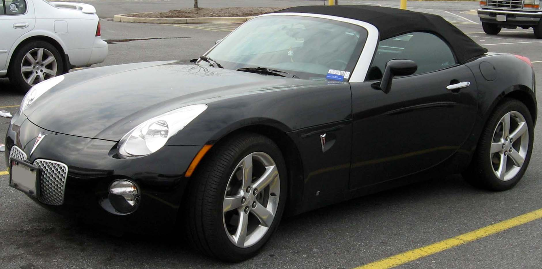 2006-2007 Pontiac Solstice photographed in USA.